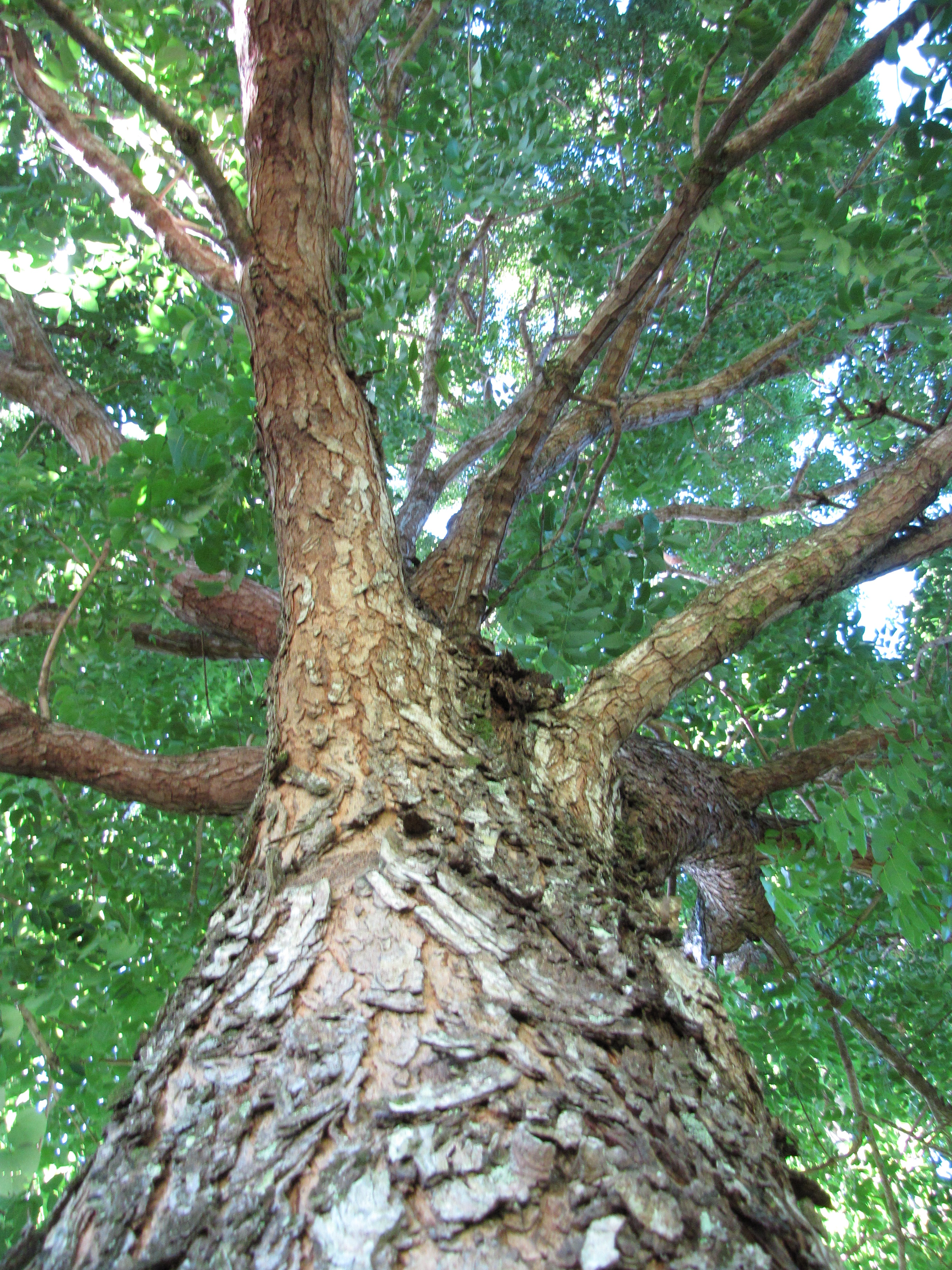 Swietenia humilis, Kahanu Garden, Hana, Hawaii